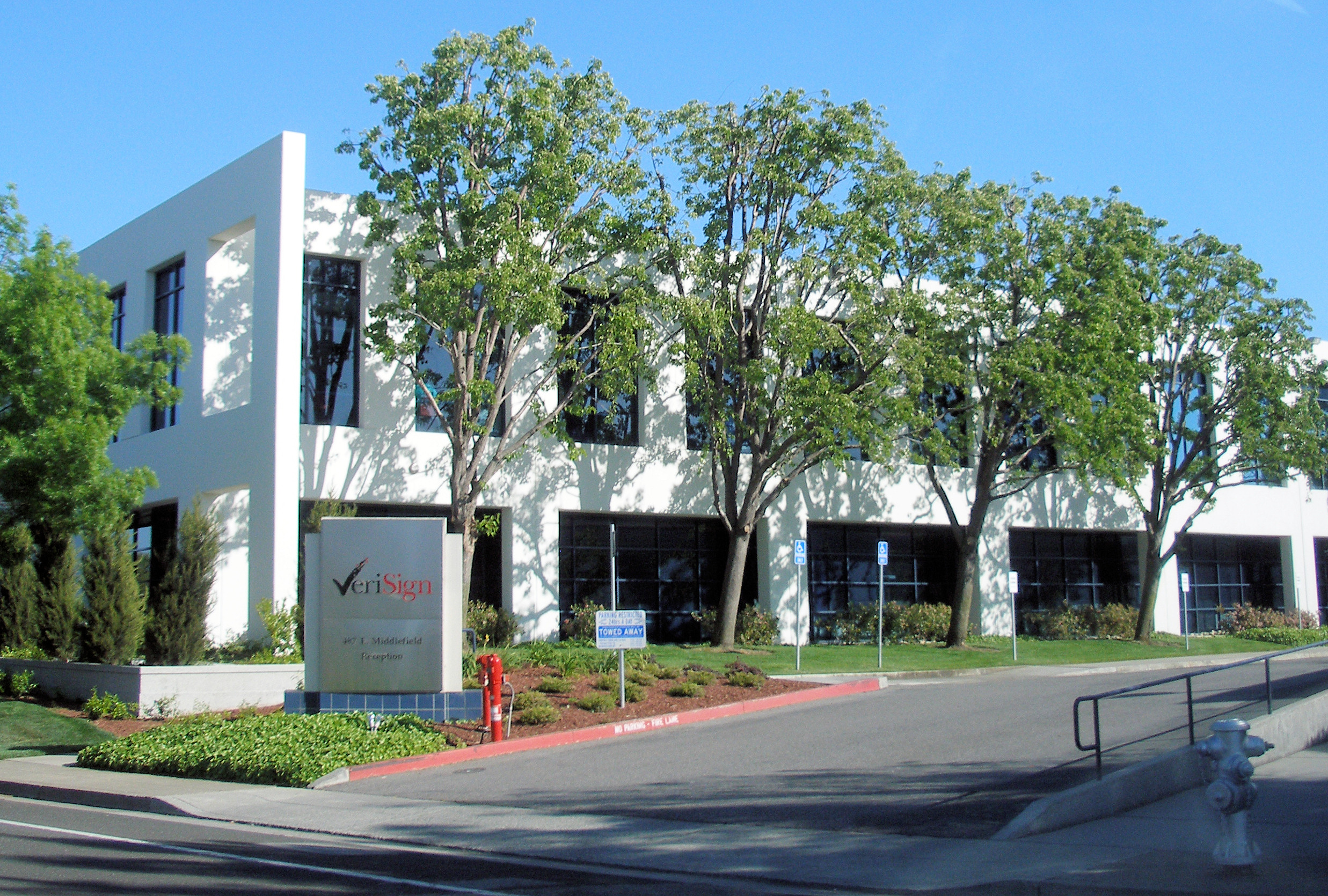 VeriSign headquarters in Mountain View, California.